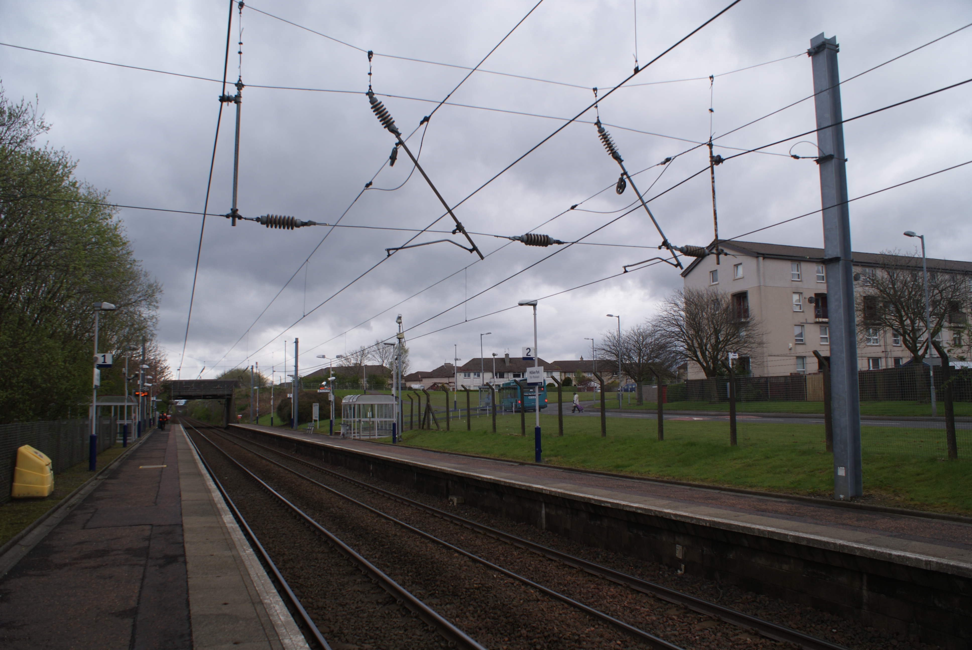 Milliken Park railway station, looking northeast